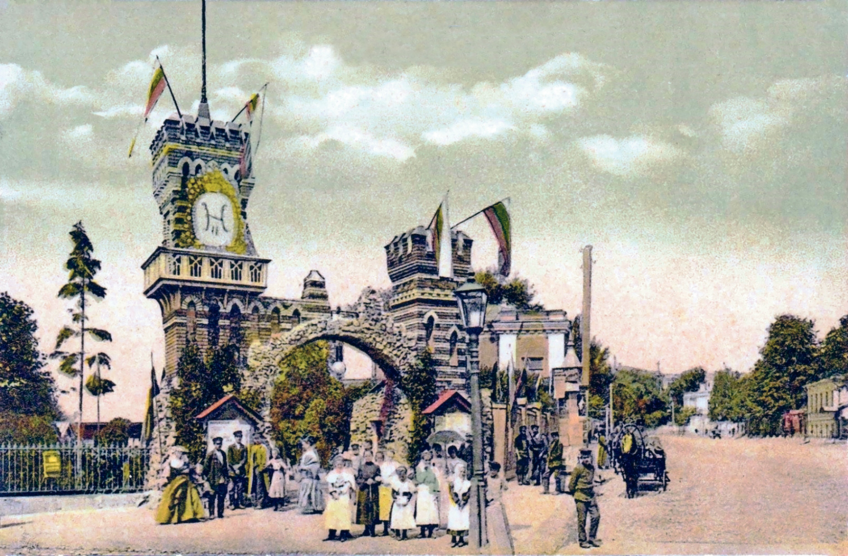 Moscow Zoo entrance, 1913.